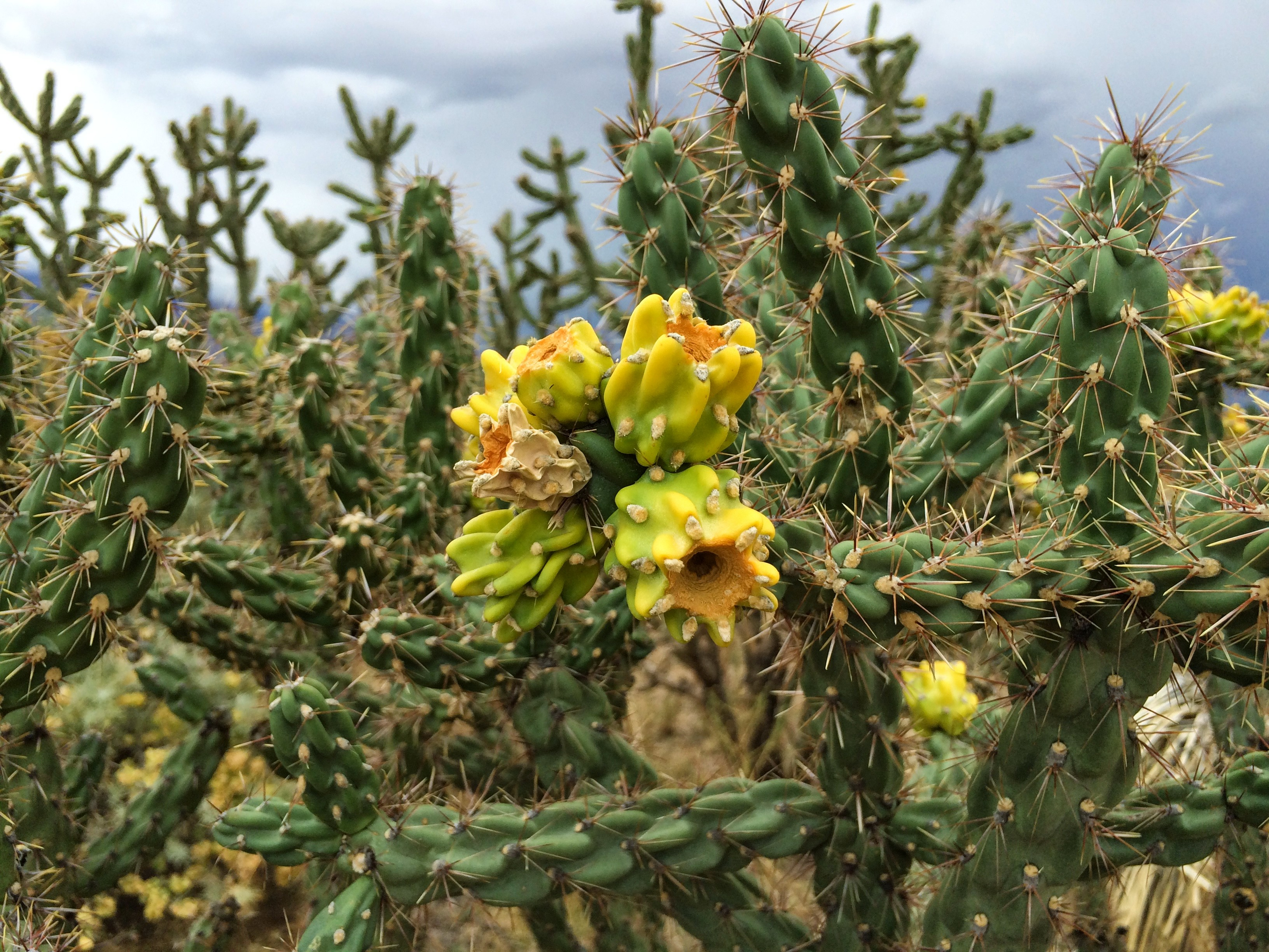 Up close photo of the tree cholla, or Cylindropuntia imbricata.